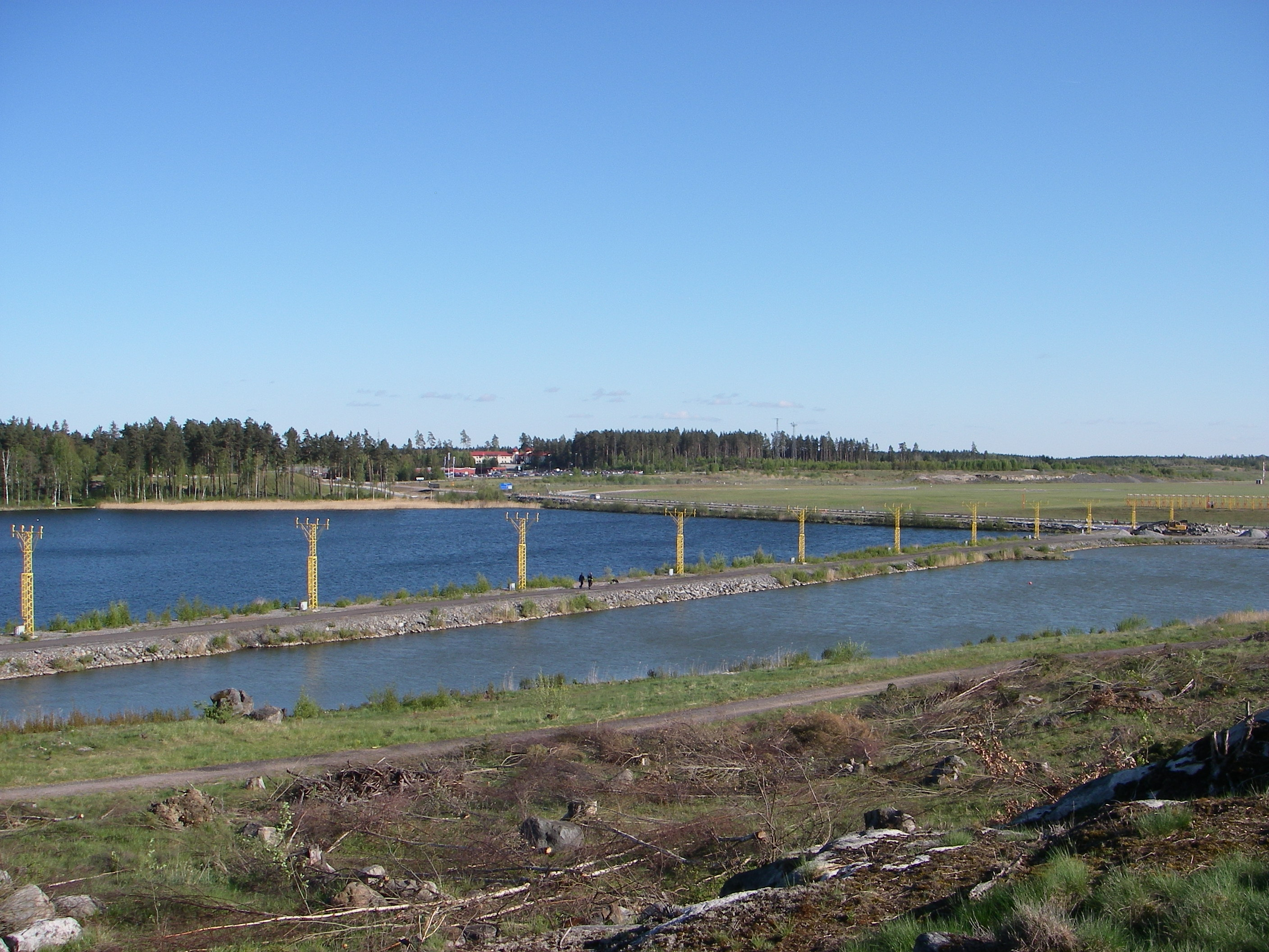 Lake Halmsjön, close to Arlanda Airport in Sigtuna Municipality.